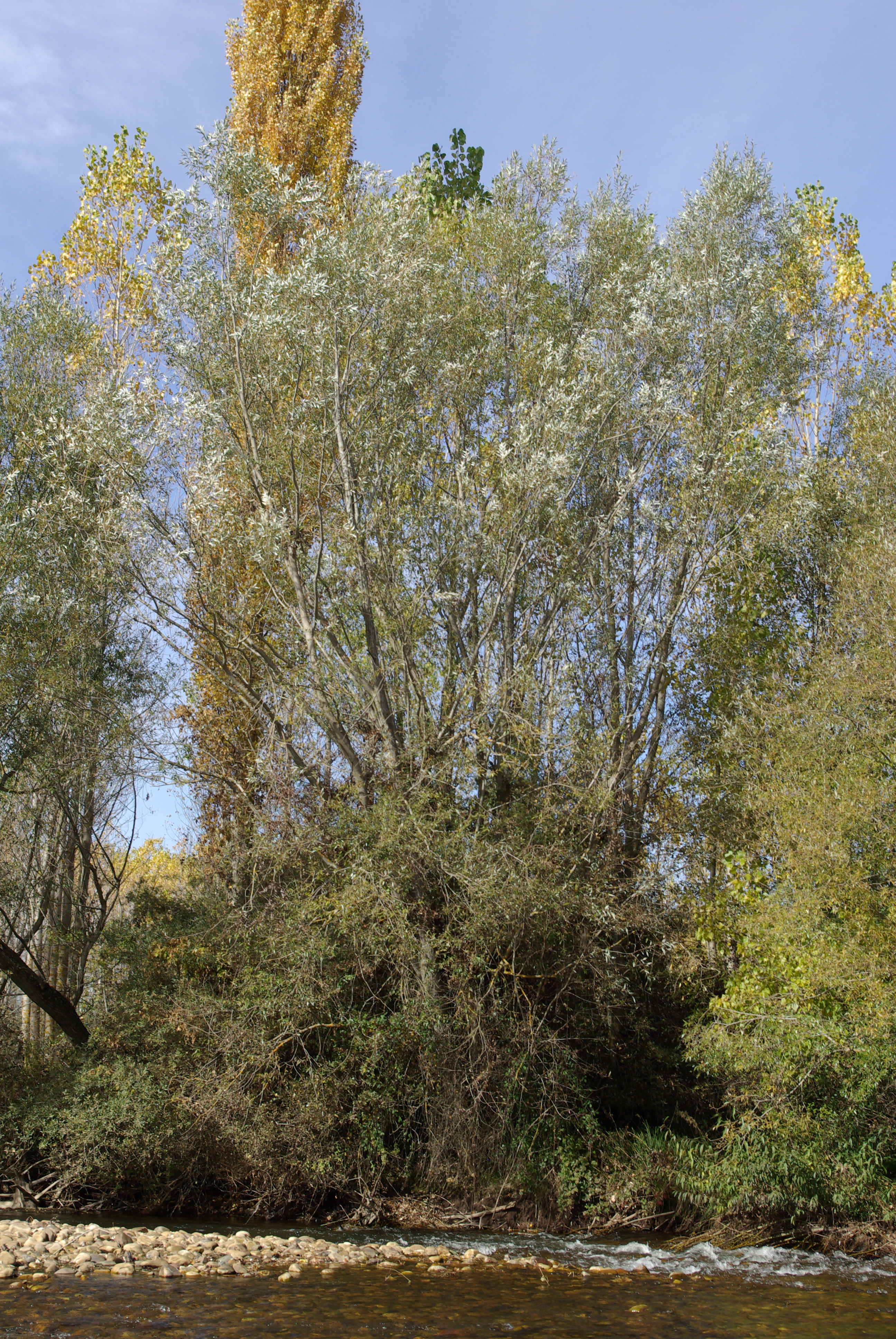 White willow (Salix alba). León (Spain).